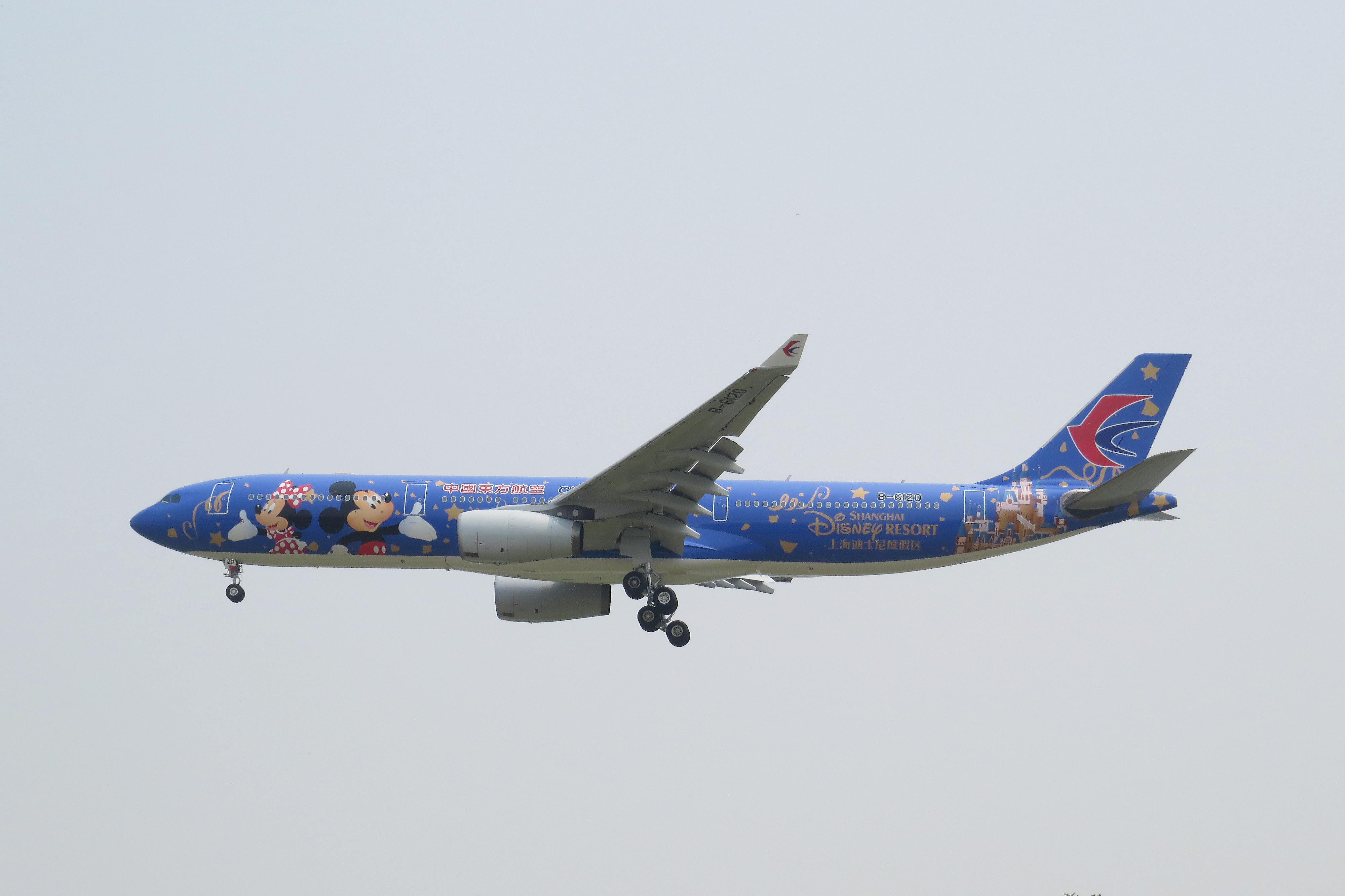 China Eastern 5105 from Shanghai Hongqiao. This "Mickey Mouse" logojet stunned the kids on the grassland below, who were on a school trip or something else.